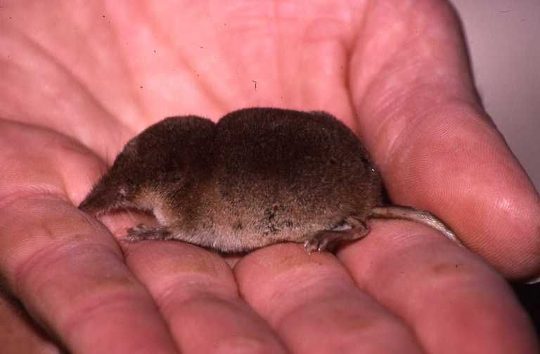 Sorex coronatus in Plemont, Jersey (Jersey (Channel Islands, UK))